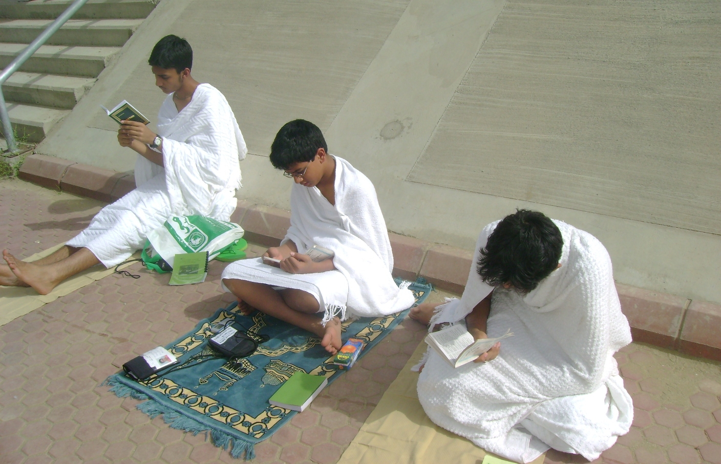 Pilgrims supplicating on the Plains of Arafat on the Day of Arafat